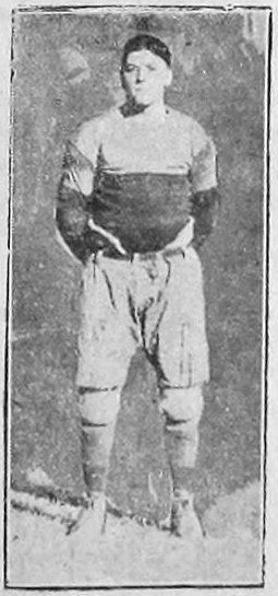 American–Canadian ice hockey player Carl Voss while playing football at Queen's University in Kingston, Ontario in 1924.